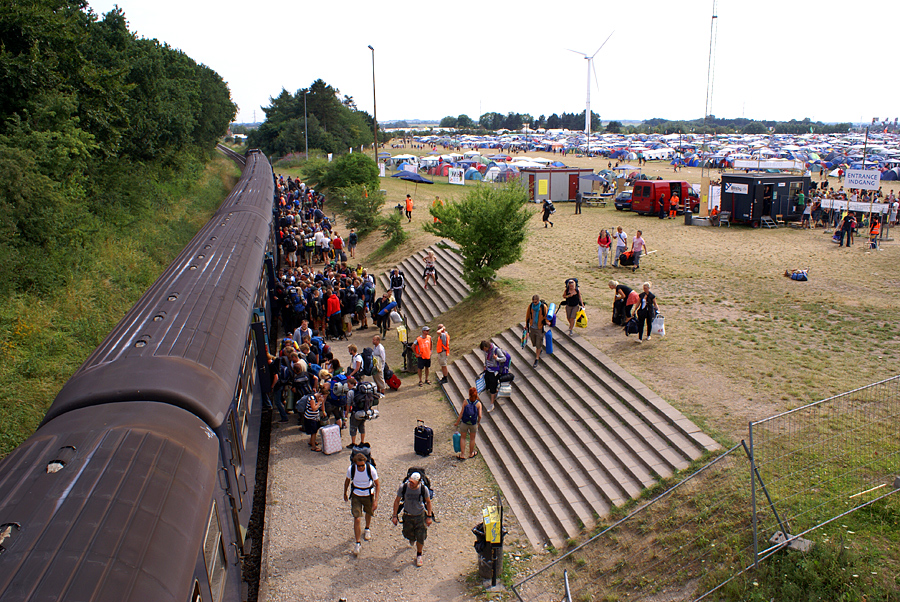 The temporary train station at Roskilde Festival, Roskilde, Denmark is busy during festival-time.